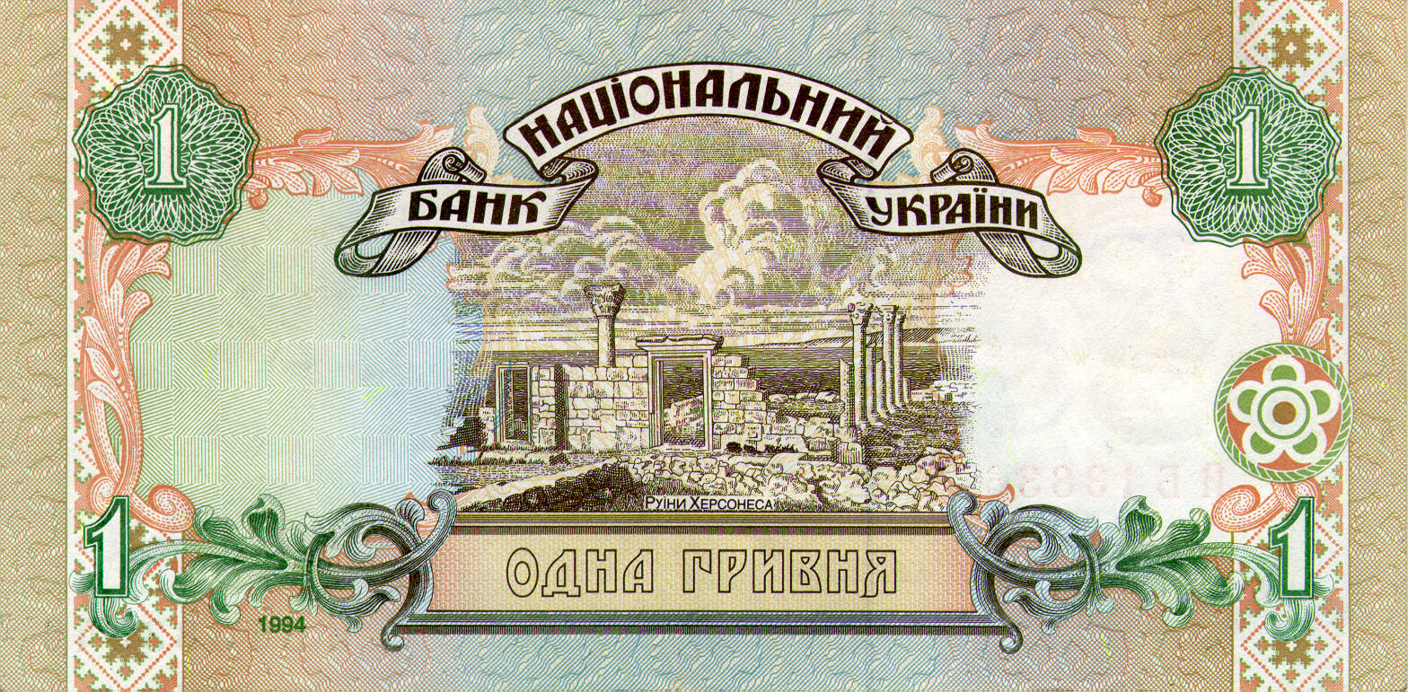 1 Hryvnia banknote (Ukraine), 1994, back